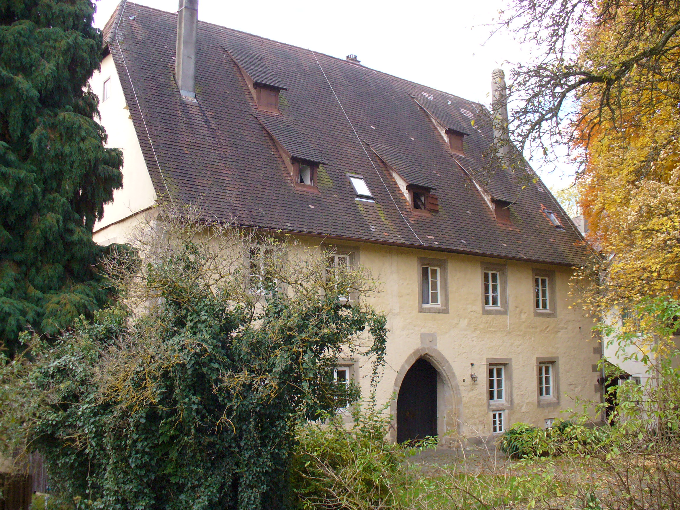 Adelberg Abbey, Storehouse